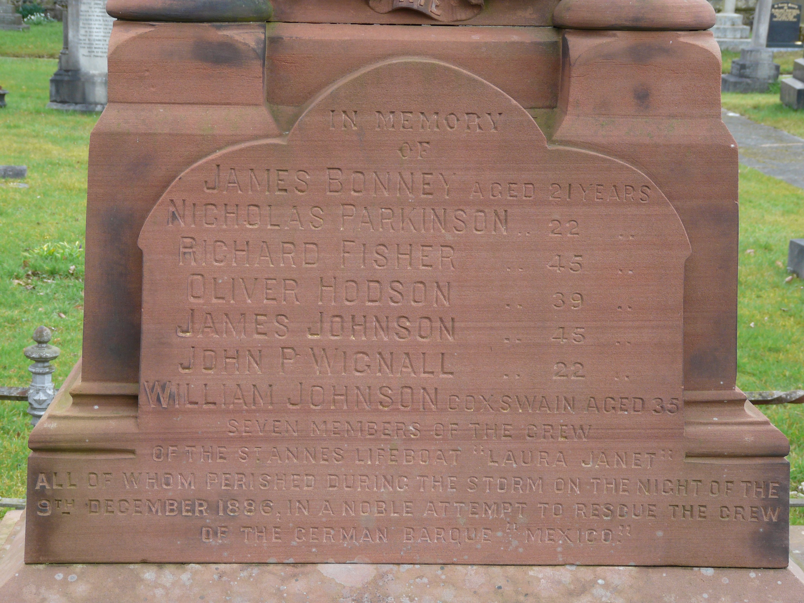 Detail of memorial at St Cuthbert's Church, Lytham, Lancashire, UK to the loss of the RNLI lifeboat "Laura Janet" 9 December 1886.